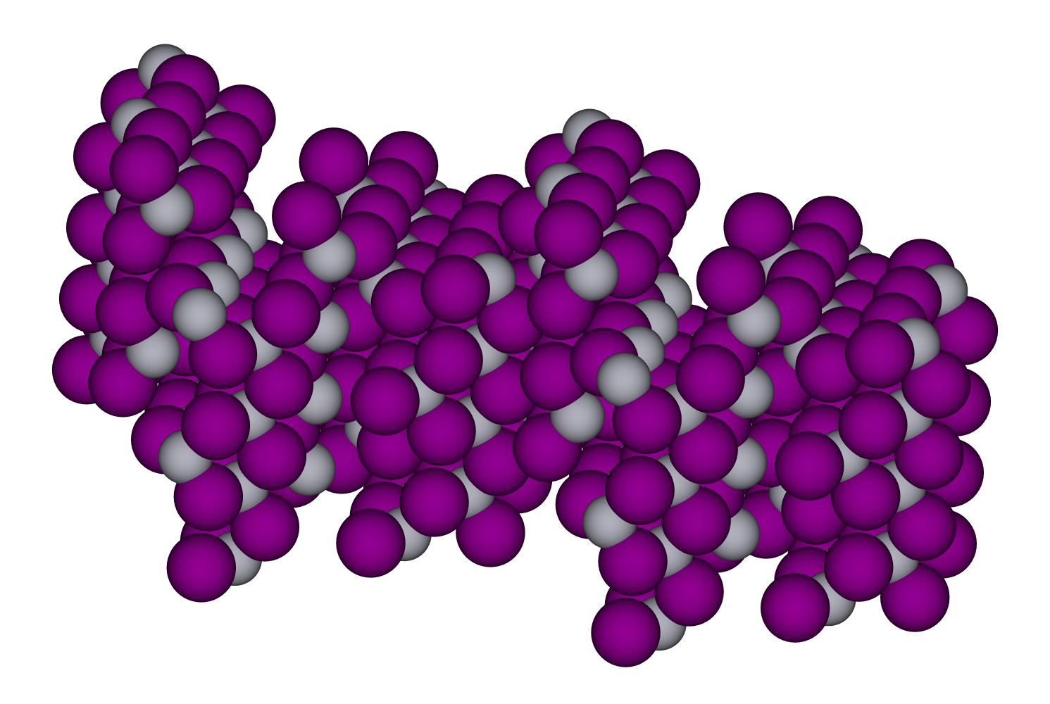 Space-filling model of part of the crystal structure of Mercury(II) iodide, HgI2. Structural data from the CrystalMaker 8.1 structure library, originally from Schwarzenbach D Zeitschrift fur Kristallographie 128 (1969) 97-114.